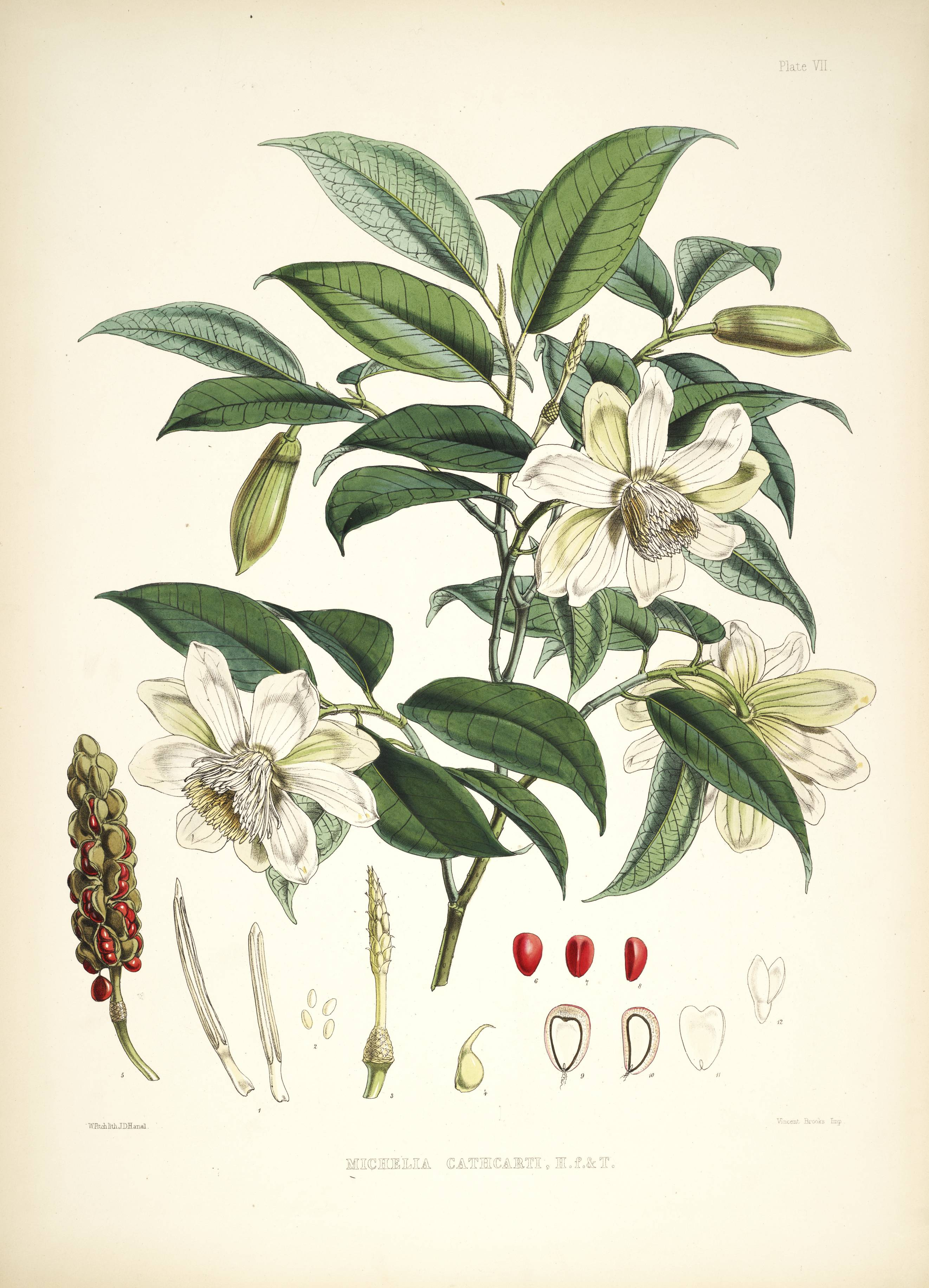 Hand-coloured engraving of Alcimandra cathcartii (Hook. f. & Thomson) Dandy, the type species of genus Alcimandra Dandy. Plate VII in J.D. Hooker, Illustrations of Himalayan Plants (1855).